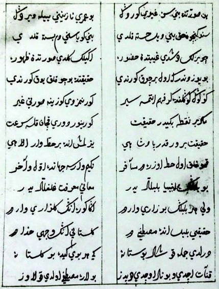 Translation of Golšan-e rāz to azeri by Sheikh Alvān of Shiraz